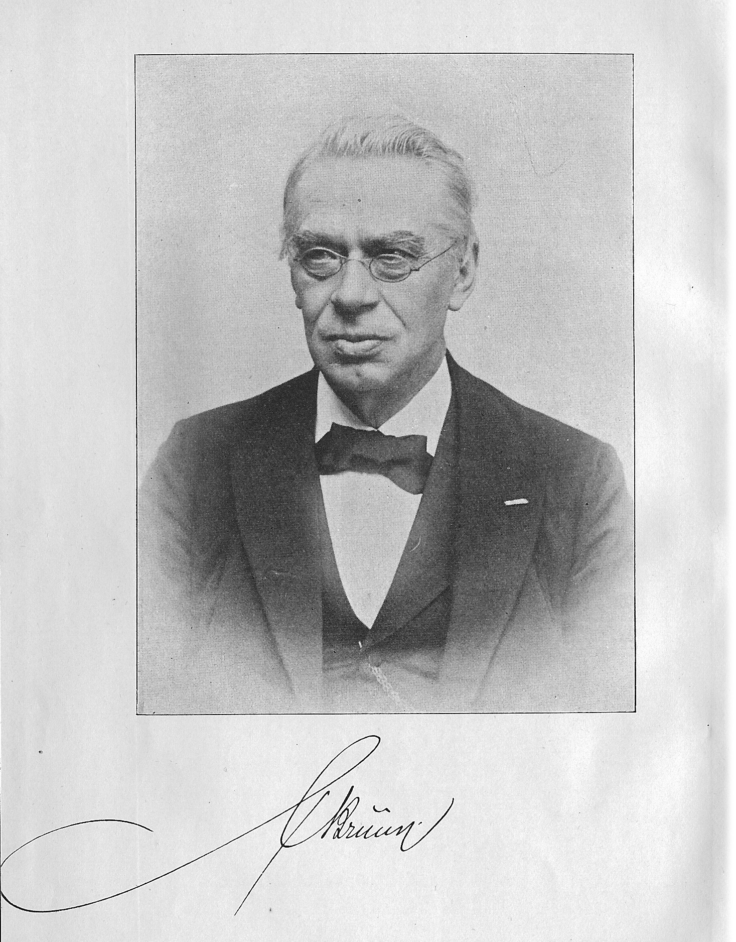 Chr. Bruun (1831-1901)